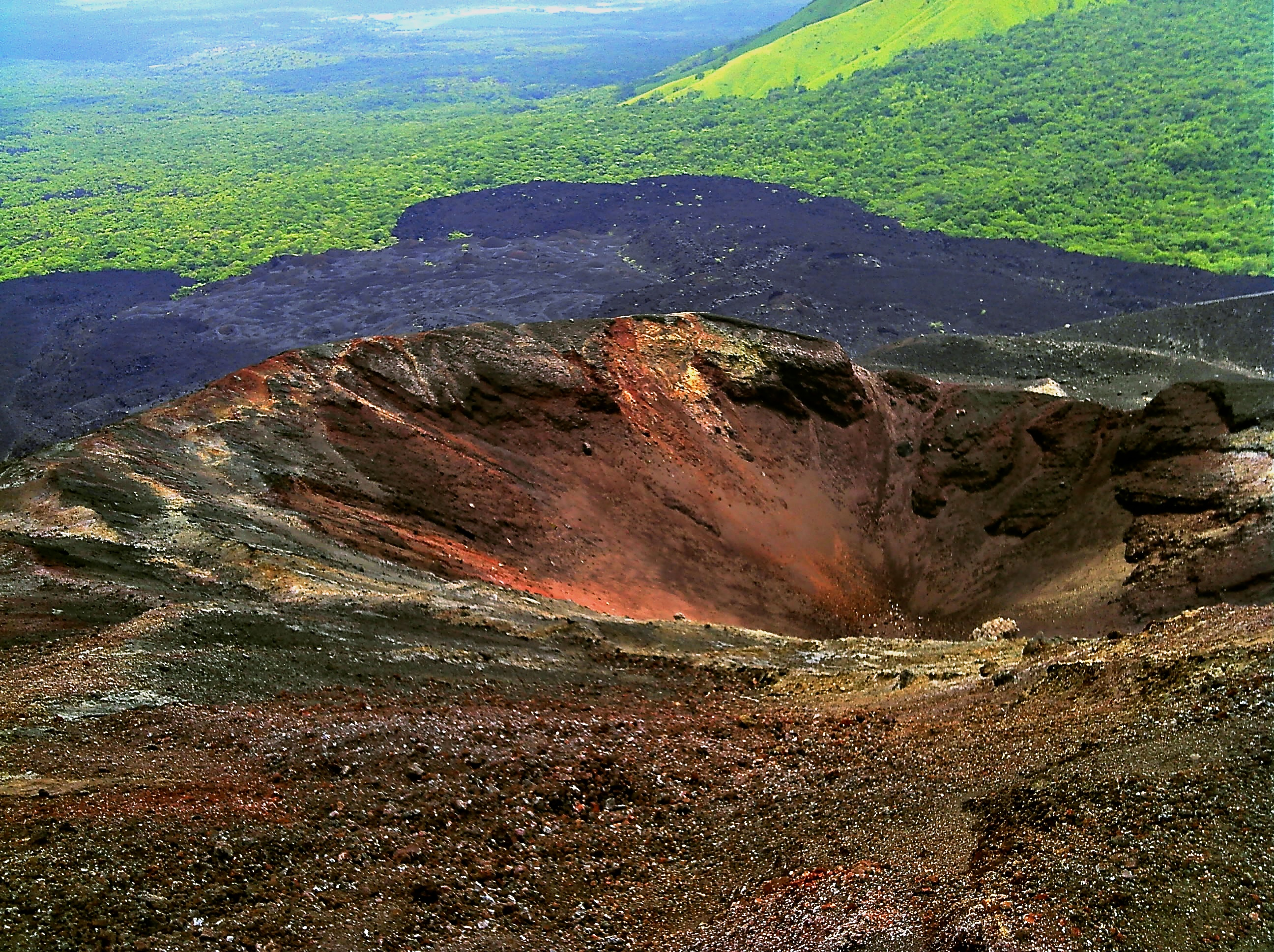 The main crater of Cerro Negro volcano in Nicaragua. August 2011